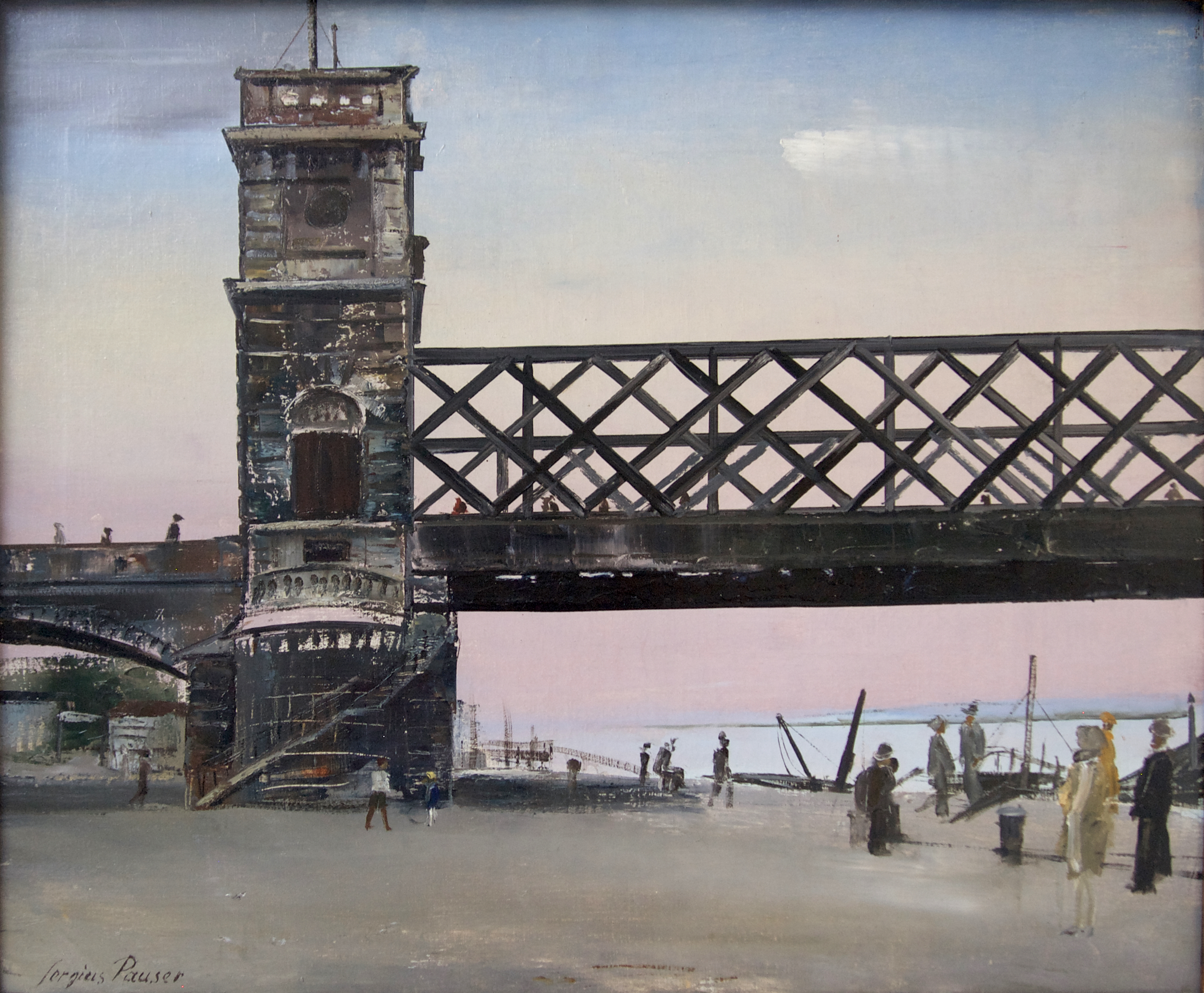 Sergius Pauser (1896-1970). Reichsbrücke von Osten. Oil on canvas 60 x 73 cm, Vienna 1929. Private collection.